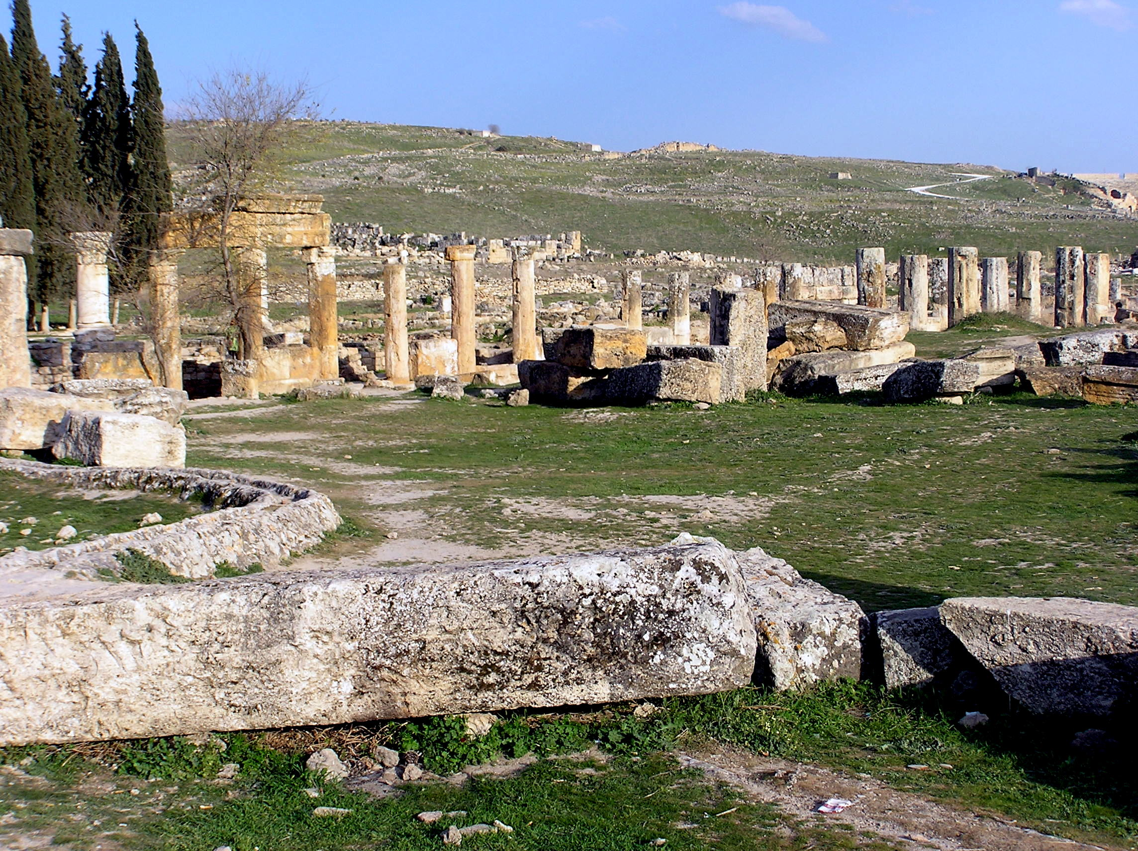 Hierapolis